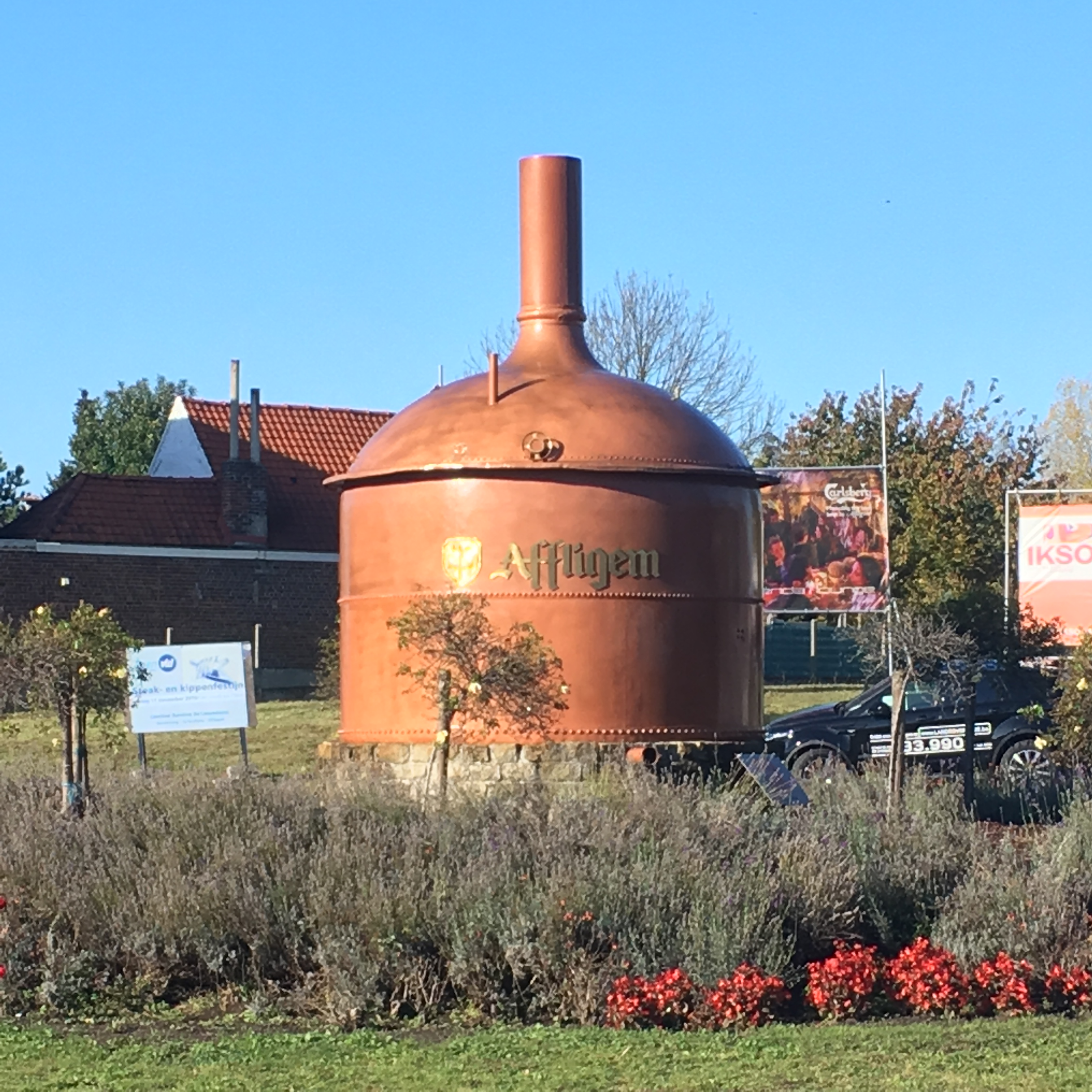 Old copper brew kettle of the Affligem brewery as a monument on a roundabout in the Bellestraat in the municipality of Affligem, Belgium. The monument was ordained in 2009.